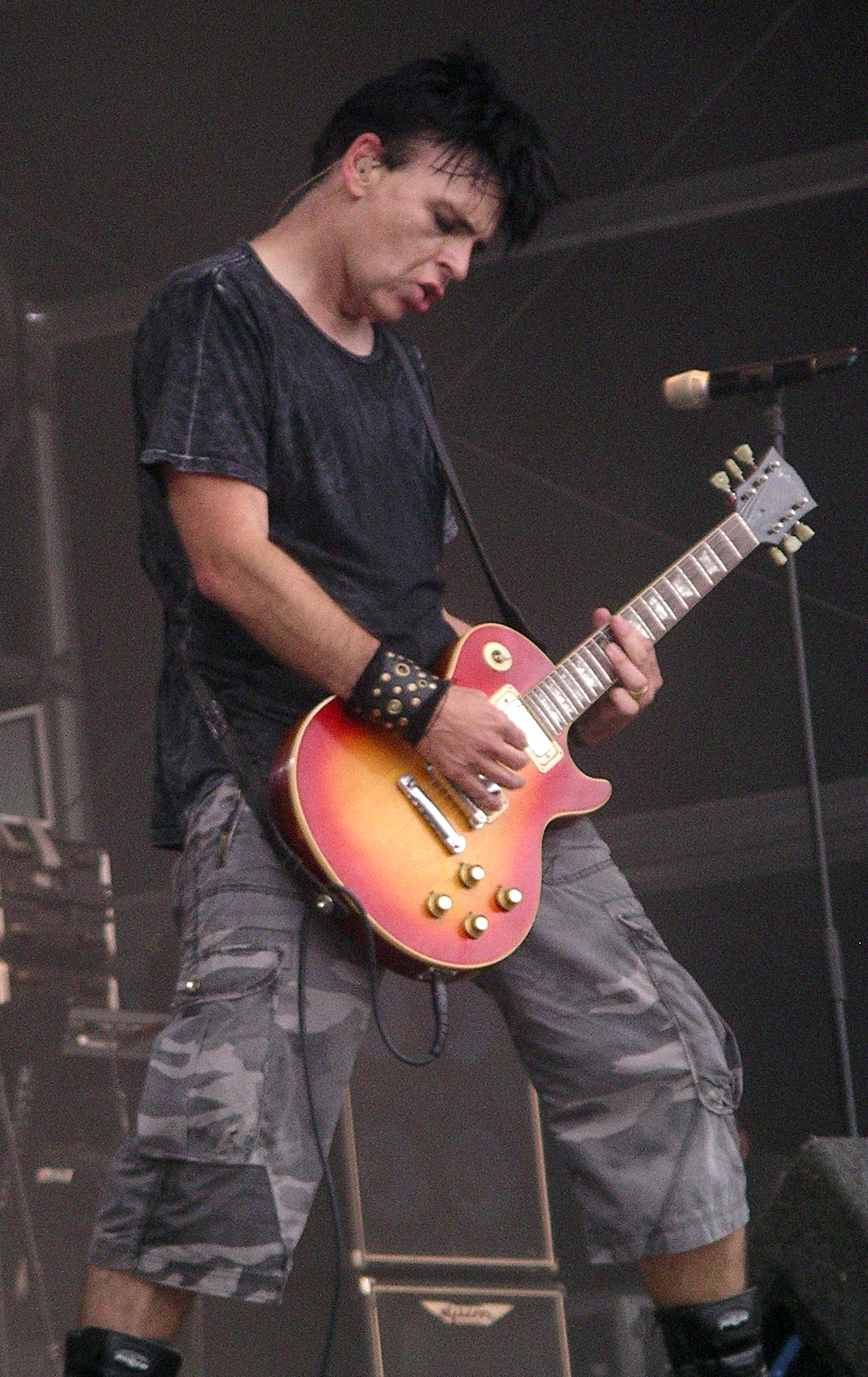 Gary Numan playing live at Bestival on I.O.W September 6th 2008